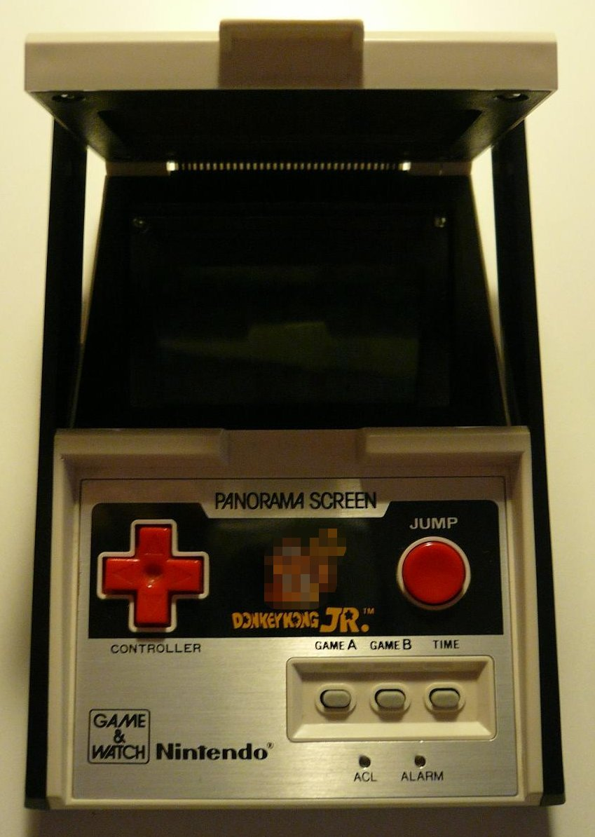 Donkey Kong Jr. (Panorama version) - Game&Watch - Nintendo